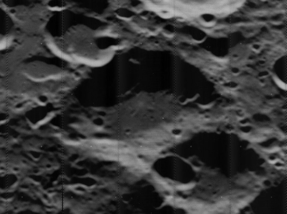 Oblique view of Teisserenc, on the far side of the moon, facing west.